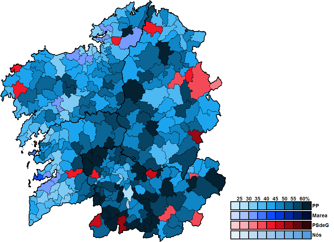 Most-voted party in Galicia municipalities, showing vote share obtained, in the Spanish general election, 2015.